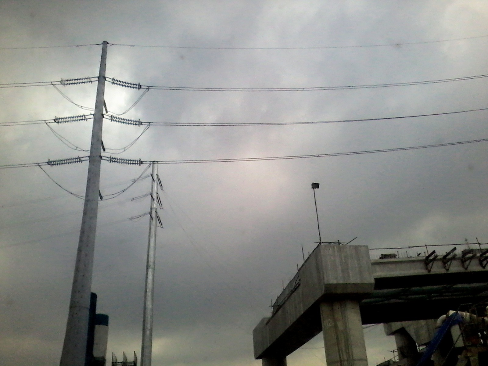 New steel poles being erected to replace several steel poles of the Sucat-Araneta-Balintawak transmission line along the Quirino Avenue at Paco, Manila, to give way for the construction and completion of the Skyway Stage 3.